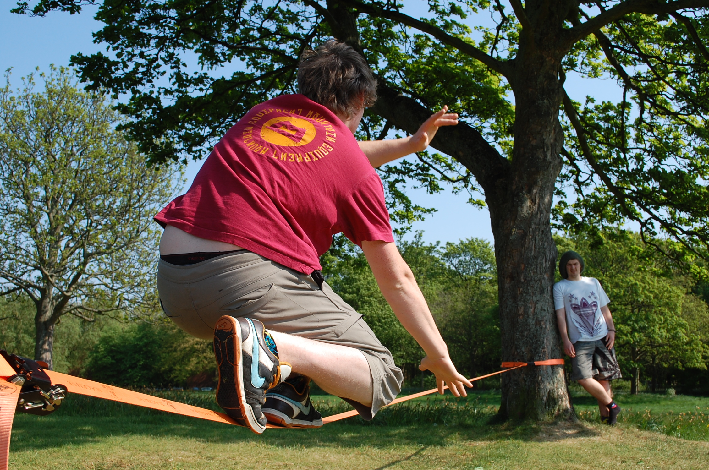 Slackline in the sun